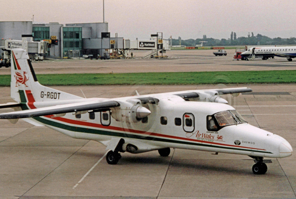 Dornier Do228 G-RGDT of Air Wales at Manchester Airport in 2001\\